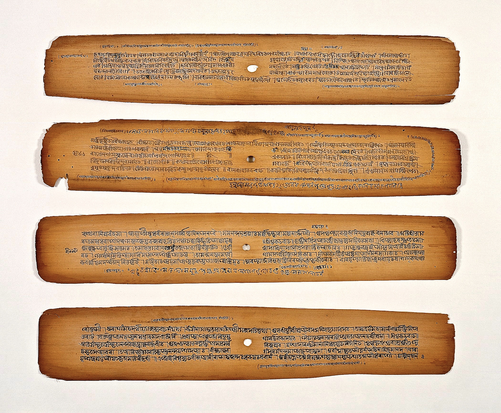 India, West Bengal, 16th century (?) Manuscripts Ink on palm leaf 2 3/4 x 14 x 5/8 in. (6.99 x 35.56 x 1.59 cm) Gift of Mr. and Mrs. H. Robert Slusser (M.88.134.4) South and Southeast Asian Art